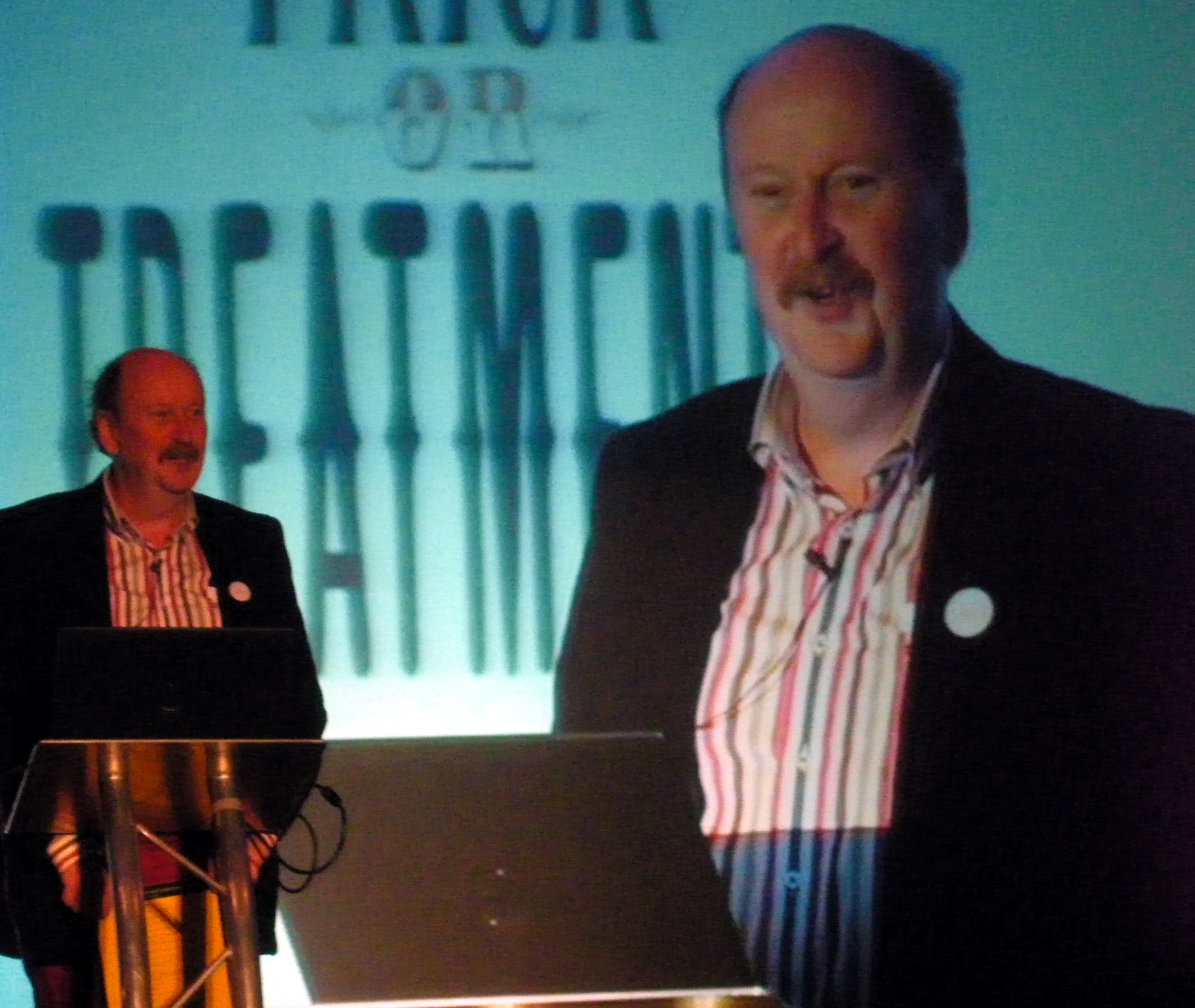 2012-03-11 QED 108 Sunday - Edzard Ernst: 'Alternative Medicine: Trick or Treatment?'